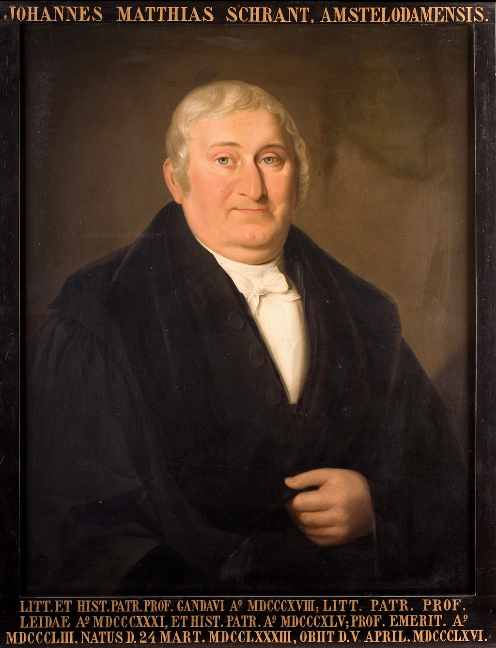 Johannes Matthias Schrant sr. (1783-1866), Leiden professor in Dutch history & retorica